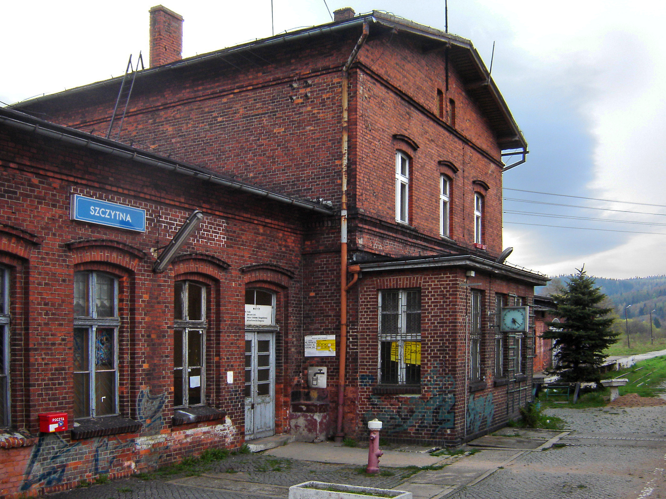 railway station in Szczytna